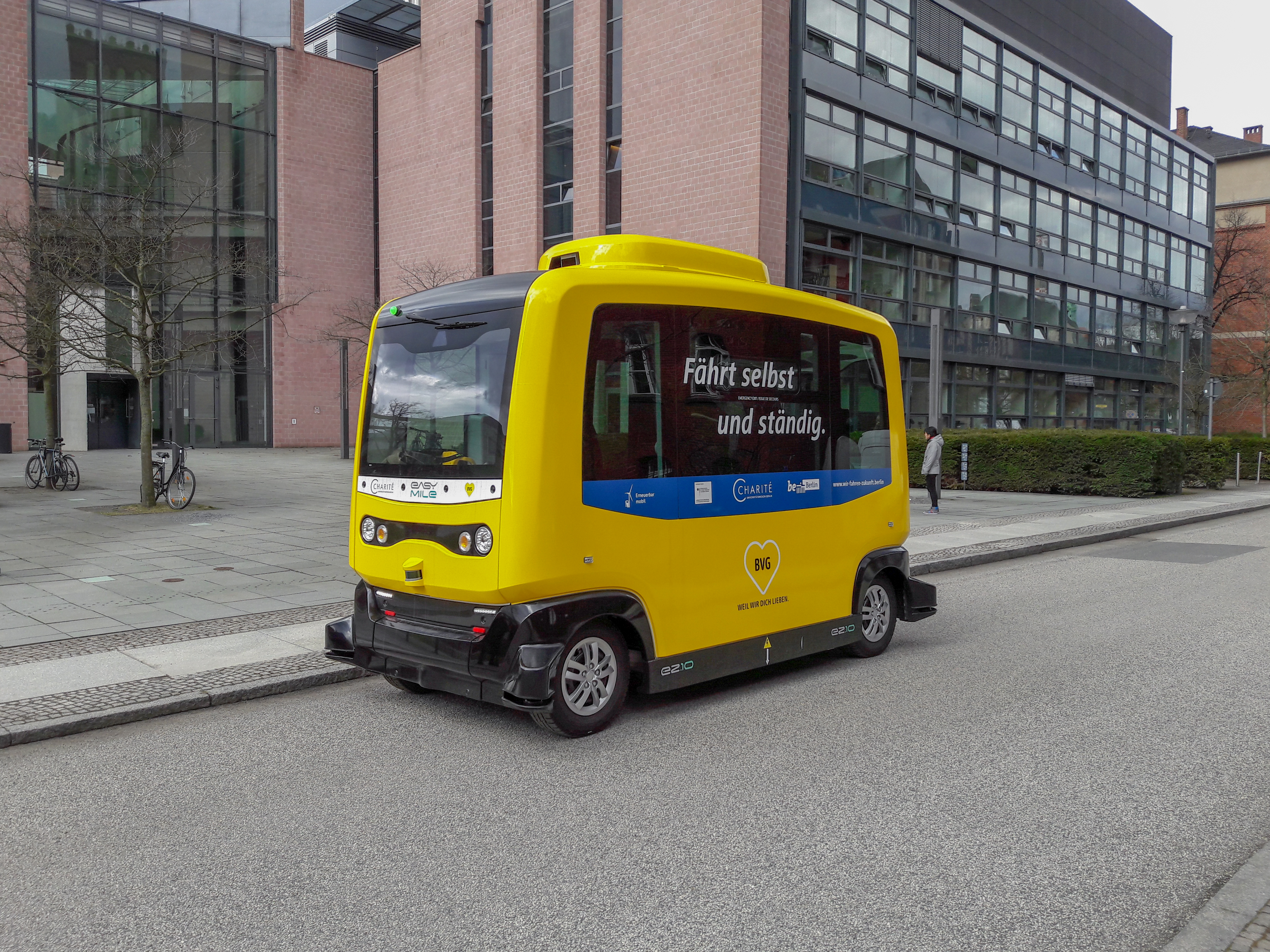 Self driving bus